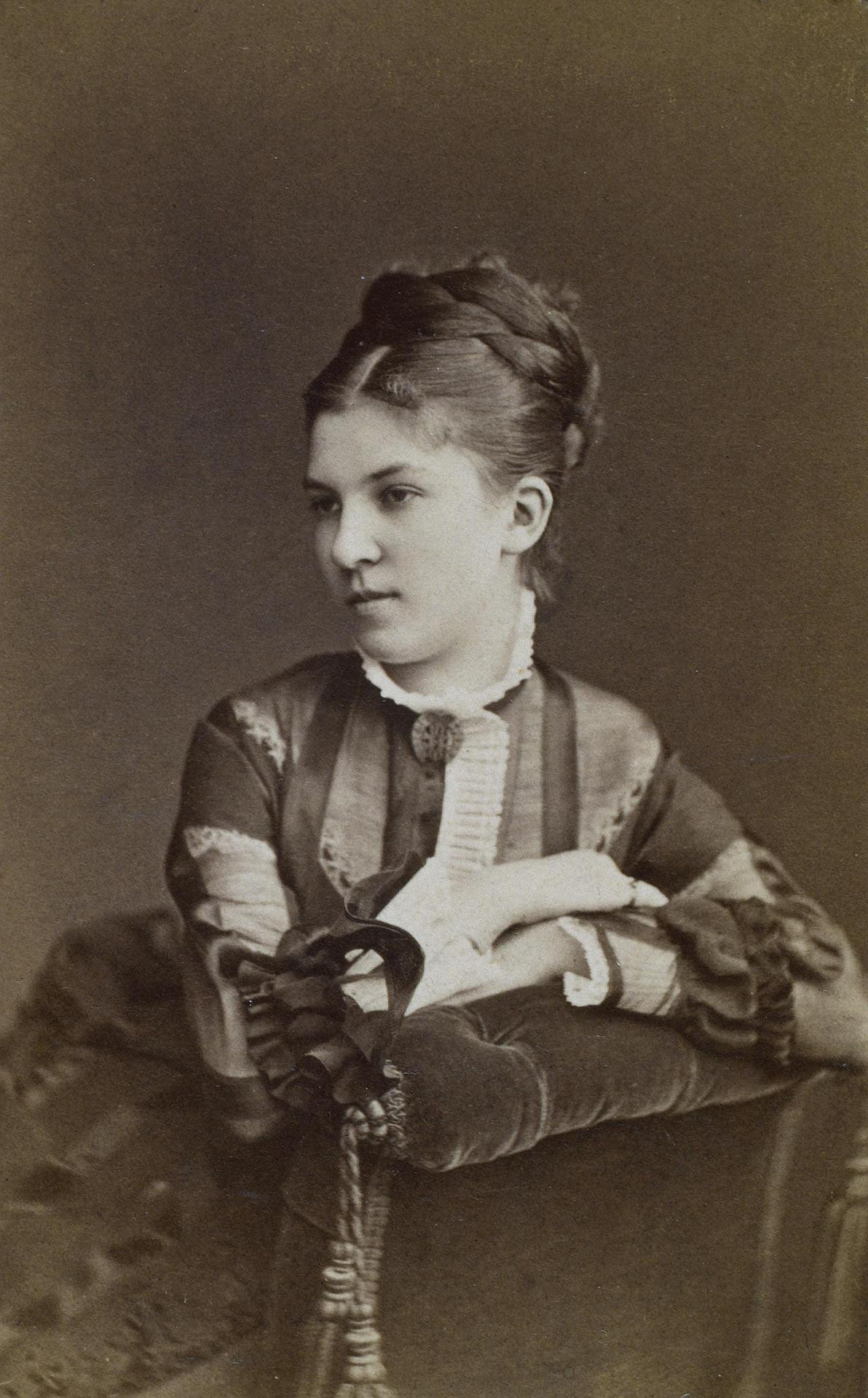 Portrait of the Actress Maria Savina